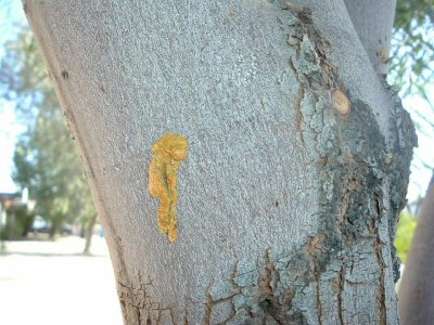 Toby Lee Spiegel - author Sap oozing from my Acacia Tree in Phoenix Arizona, 2005